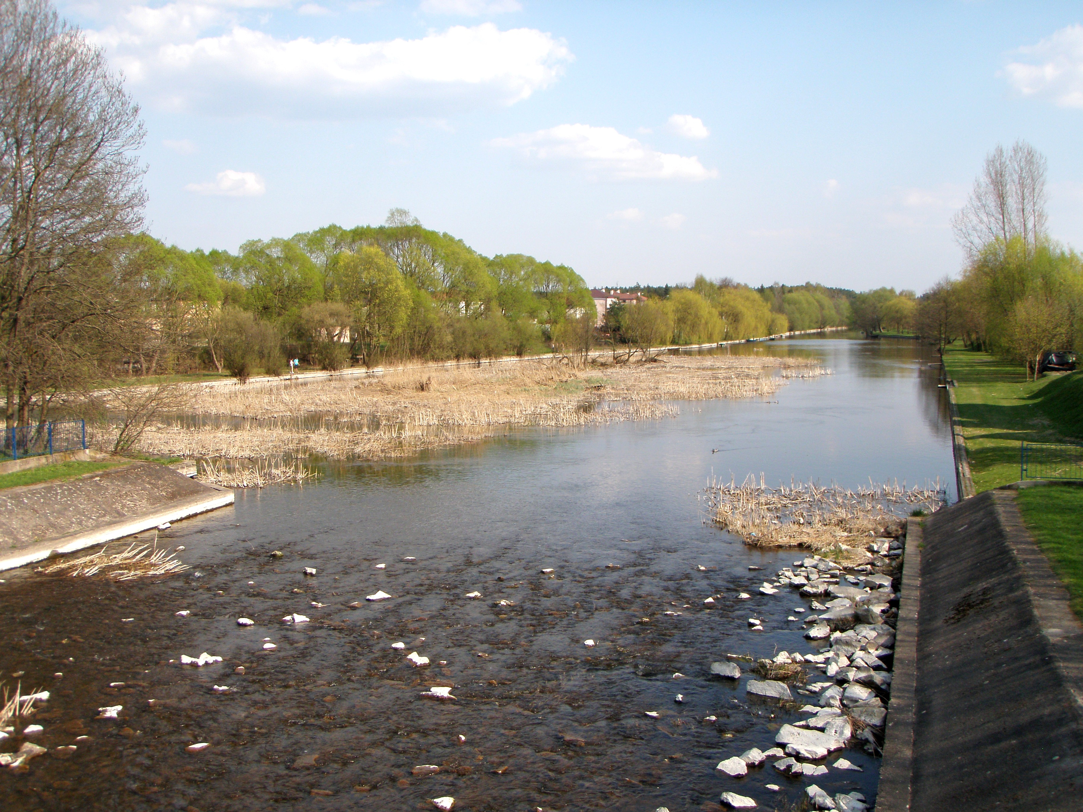 Bystry Canal in Augustów (Poland), view from 29 Listopada Str.